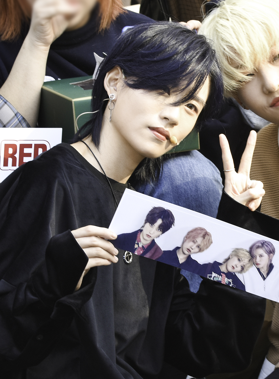 Fanxy Red busking in Hongdae on November 3, 2019.